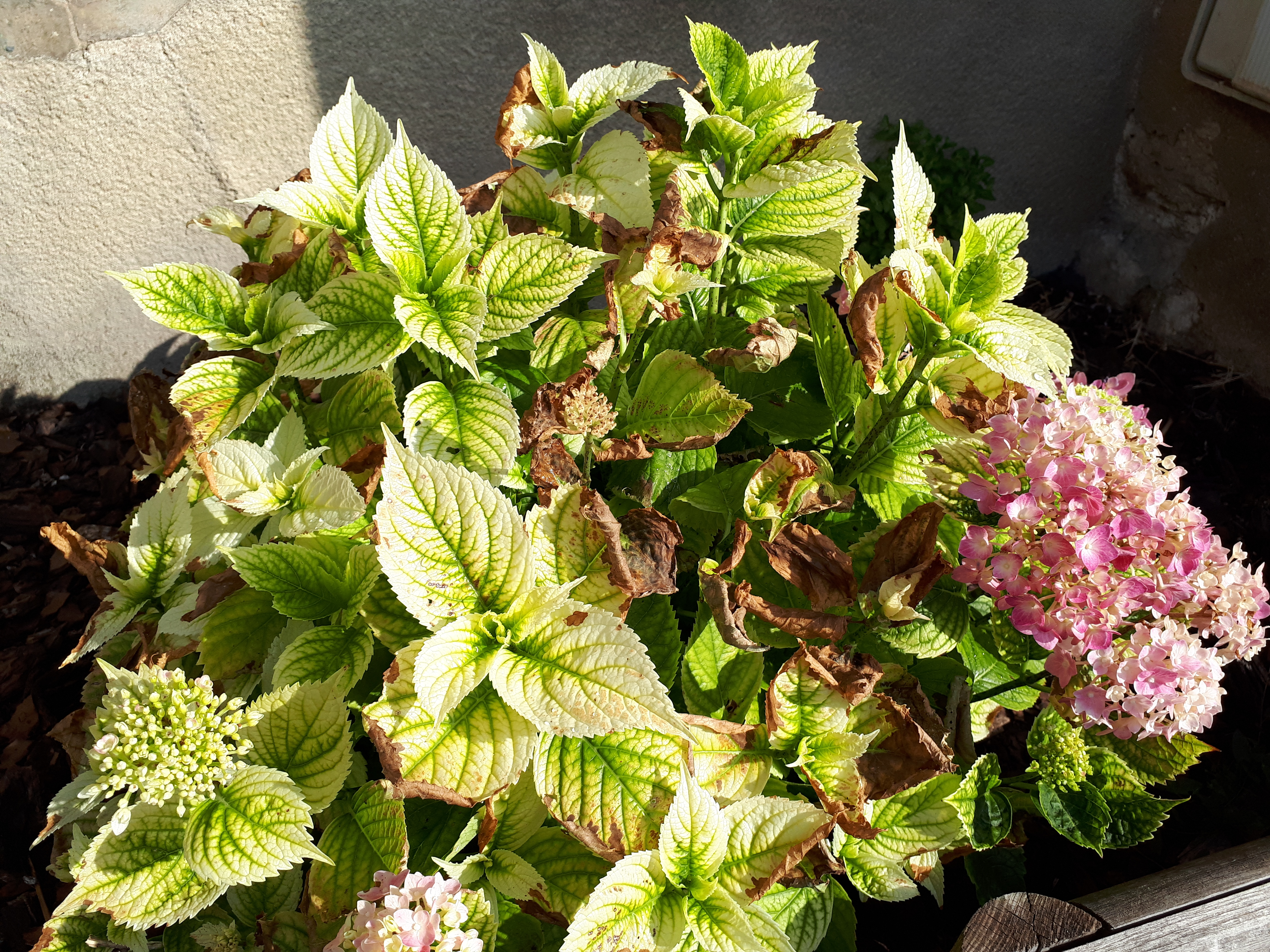 Chlorosis of hortensia by lack of iron